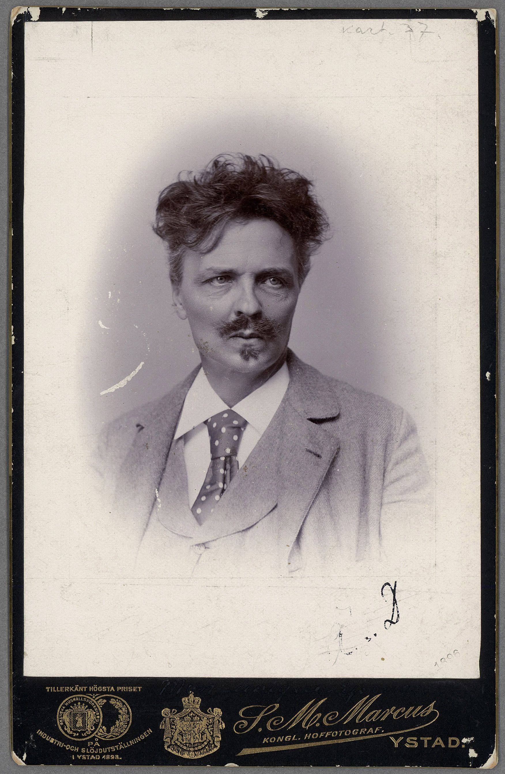 Portrait of Swedish author August Strindberg Date: 1896 Photographer: Samuel Moses Marcus, Ystad Part Of: National Library of Sweden, Collection of Manuscripts, Strindbergsrummet